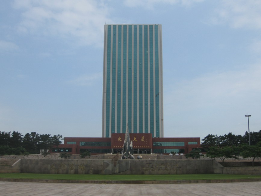 Torch Building, location of Administration Committee of Torch Hi-tech Industries Development Zone of Weihai China